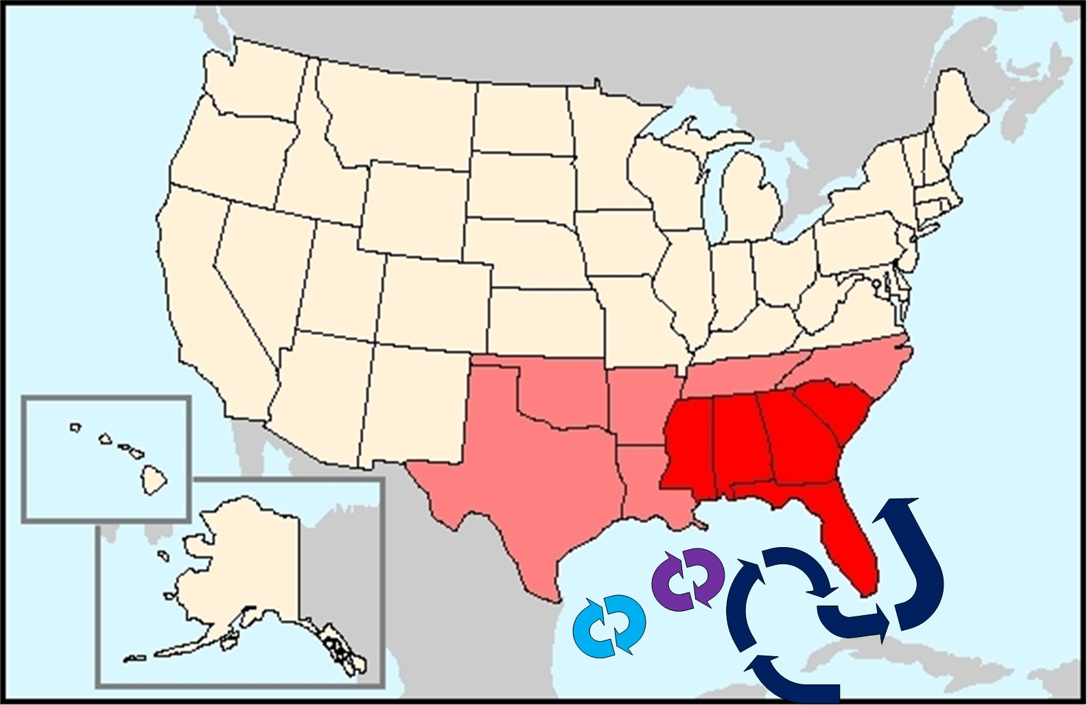 Southeastern United States of America. Made from existing map. -JCarriker